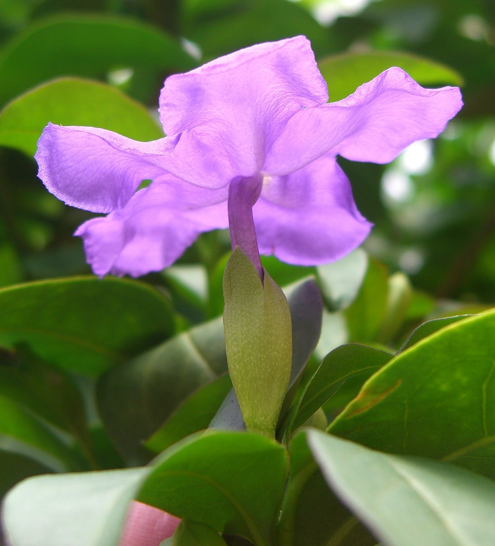 Description: Detail of the blossom of Brunfelsia pauciflora